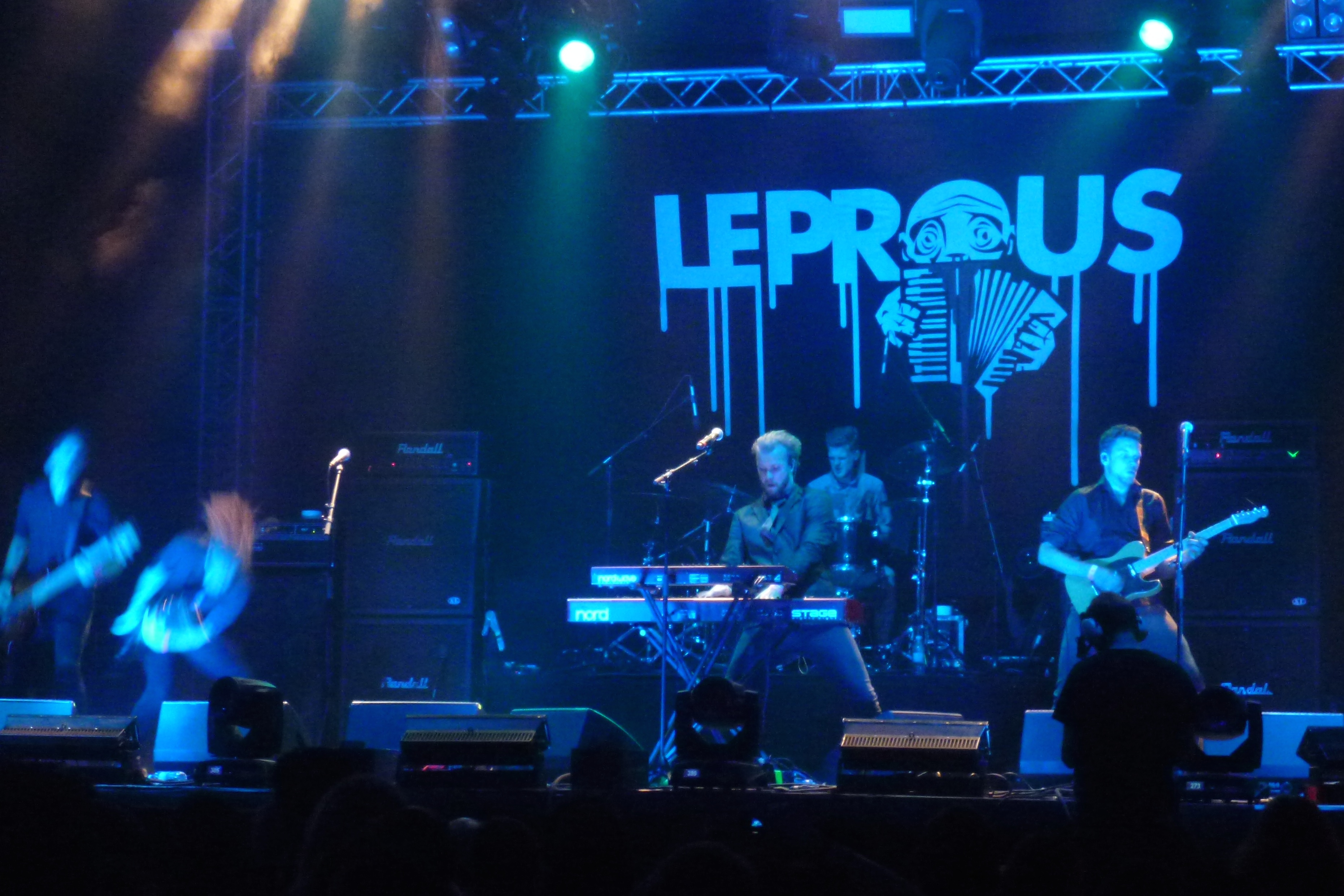 The Norwegian progressive metal band Leprous at the Wacken Open Air 2013 (Headbanger Stage on August 2nd, 2013)